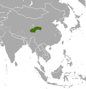 Tibetan Shrew (Sorex thibetanus) range